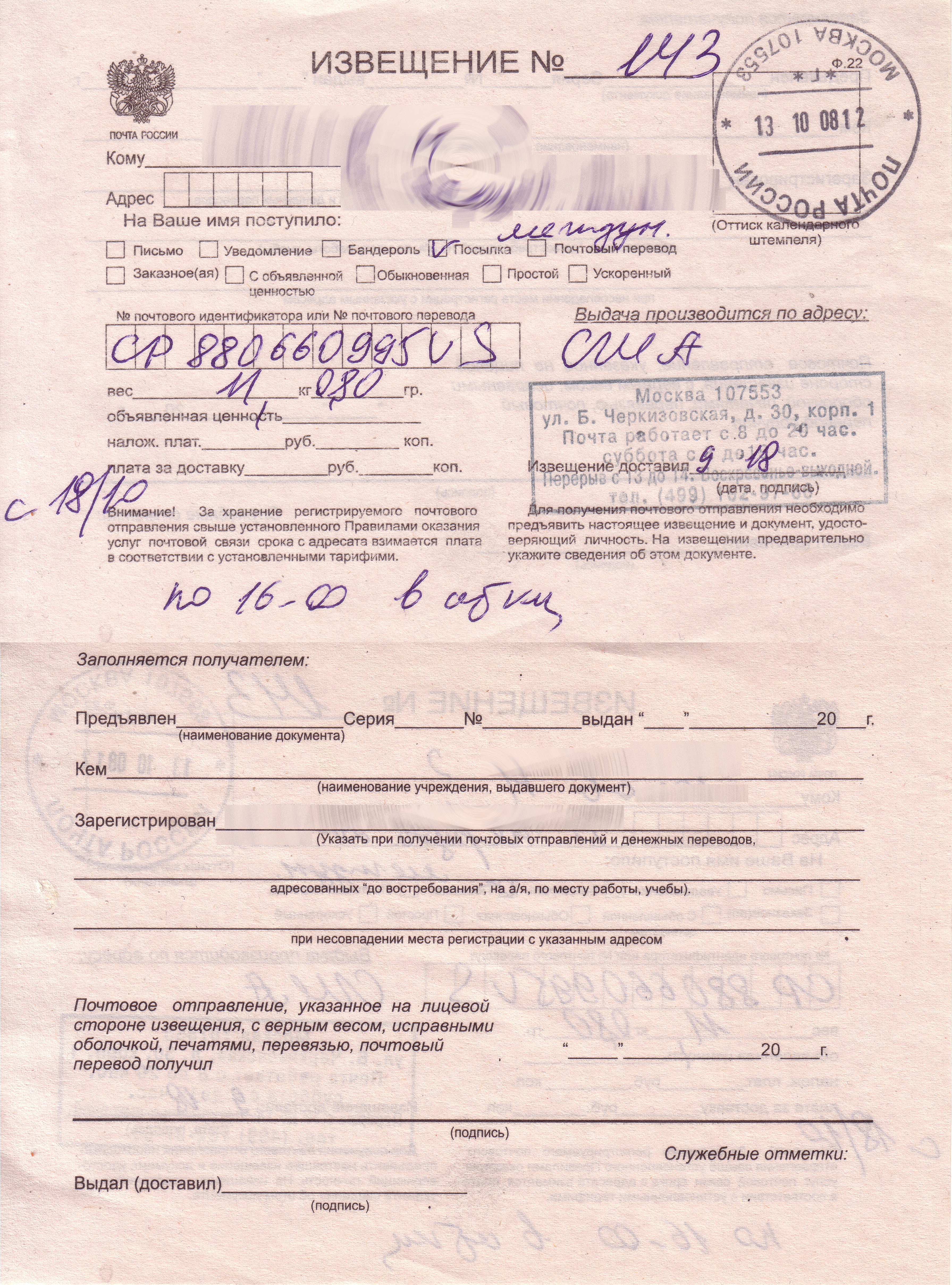 Russia Package Mailing form, front and reverse side, 2008.